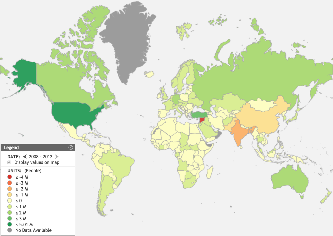 Net migration by Nation